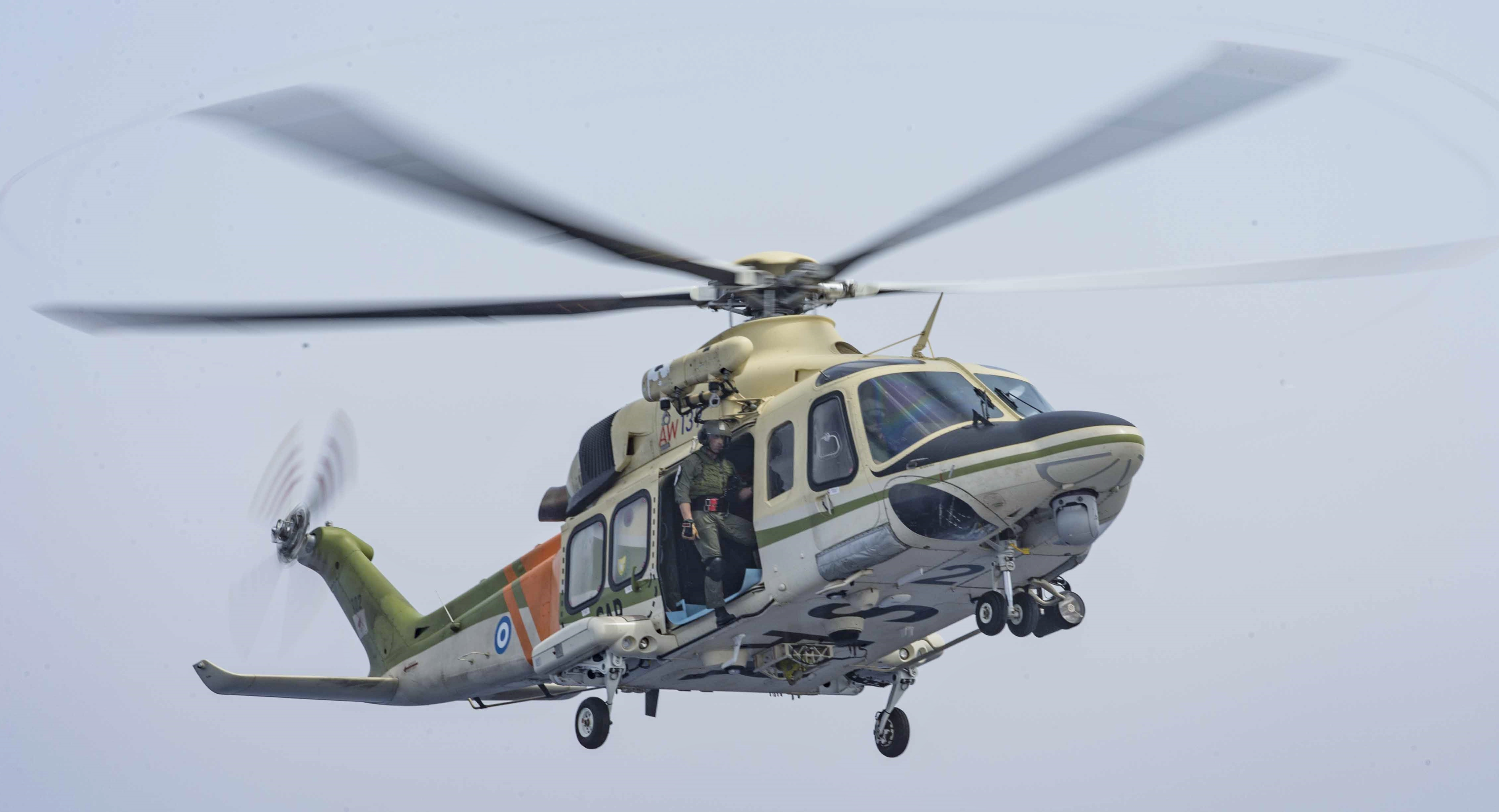 160604-N-GP524-341 MEDITERRANEAN SEA (June 4, 2016) – A Cyprian 460-SAR SQ Search and Rescue helicopter departs USS Stout (DDG 55) during a simulated search and rescue exercise June 4, 2016. Stout, an Arleigh Burke-class guided-missile destroyer, deployed as part of the Eisenhower Carrier Strike Group, is conducting naval operations in the U.S. 6th Fleet area of operations in support of U.S. national security interests in Europe. (U.S. Navy photo by Mass Communication Specialist 3rd Class Bill Dodge/Released)